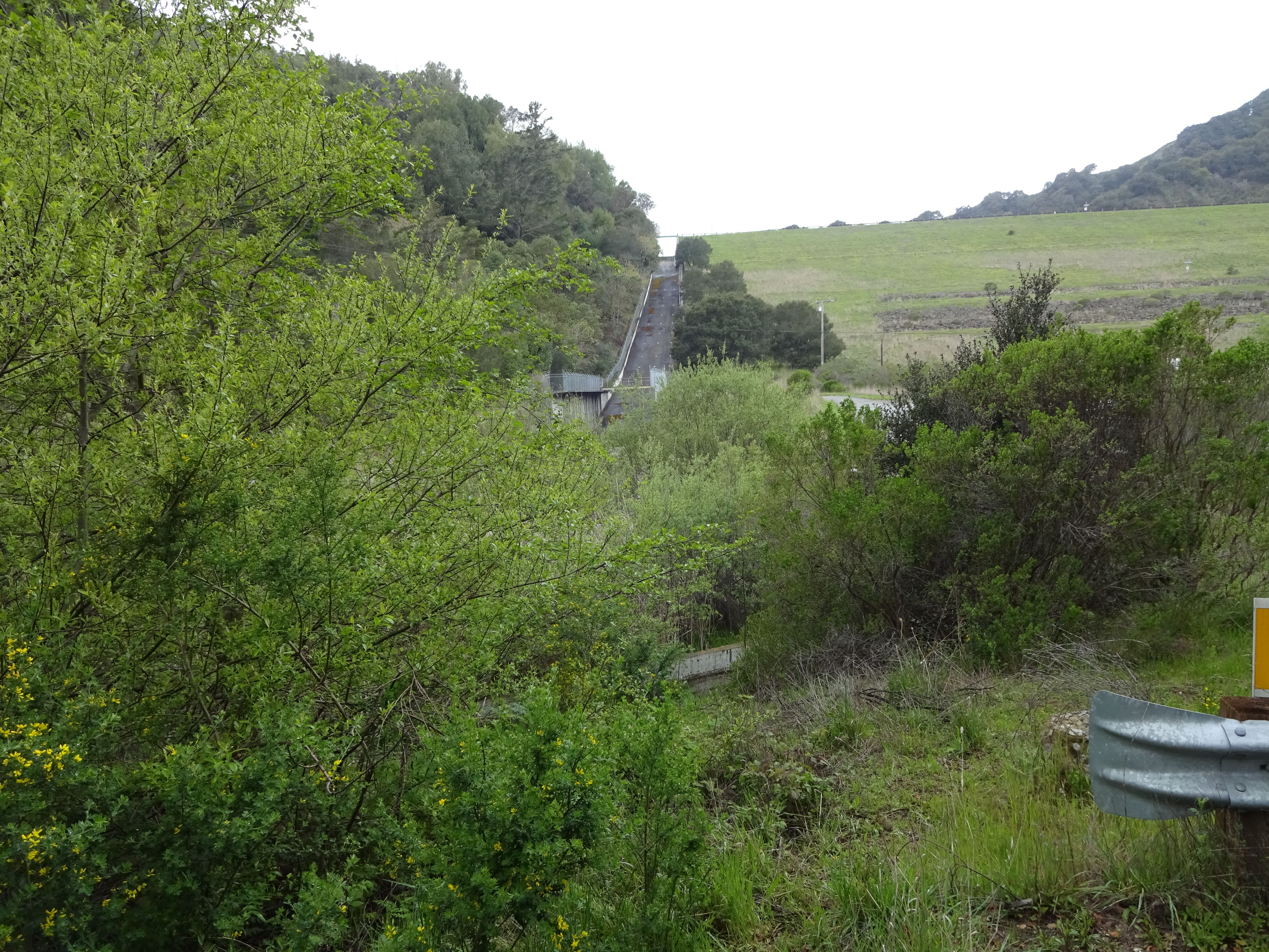 The face of the dam is green, because it fresh grass in the spring